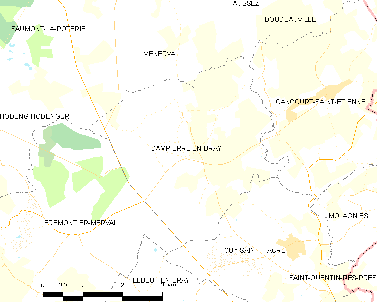 Map of French municipality Dampierre-en-Bray